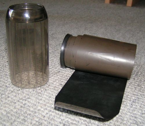 This is the same cartridge as shown in IBM_3850_MSS_Cartridge_Closed.01.jpg but in open state. Thease cartridges are not easy to open. Married colleagues (mis)used their wedding rings. In 1982 I was still a bachelor and I had to learn the so called 'space manager grip'.